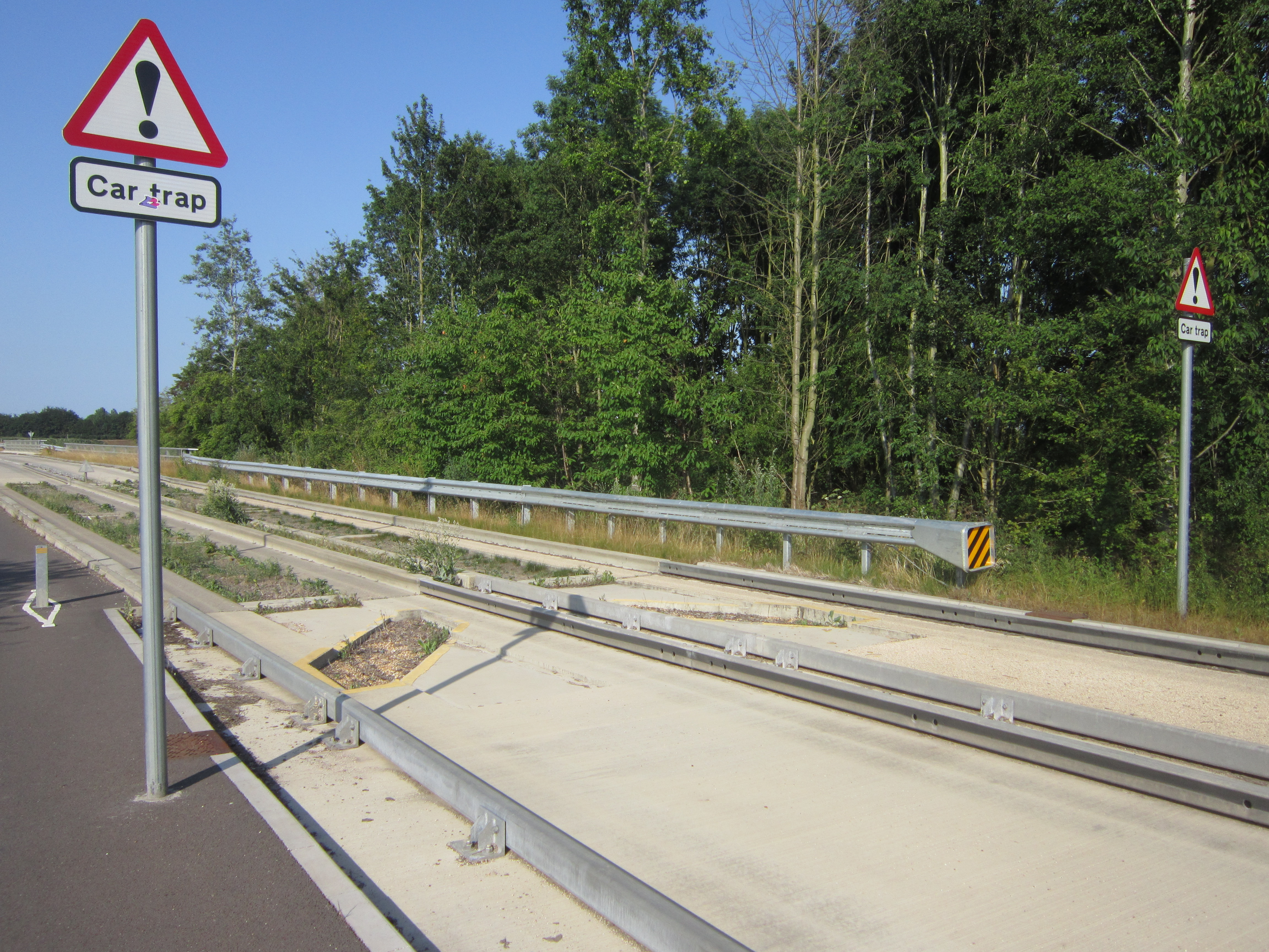 Car traps on Cambridgeshire Guided Busway